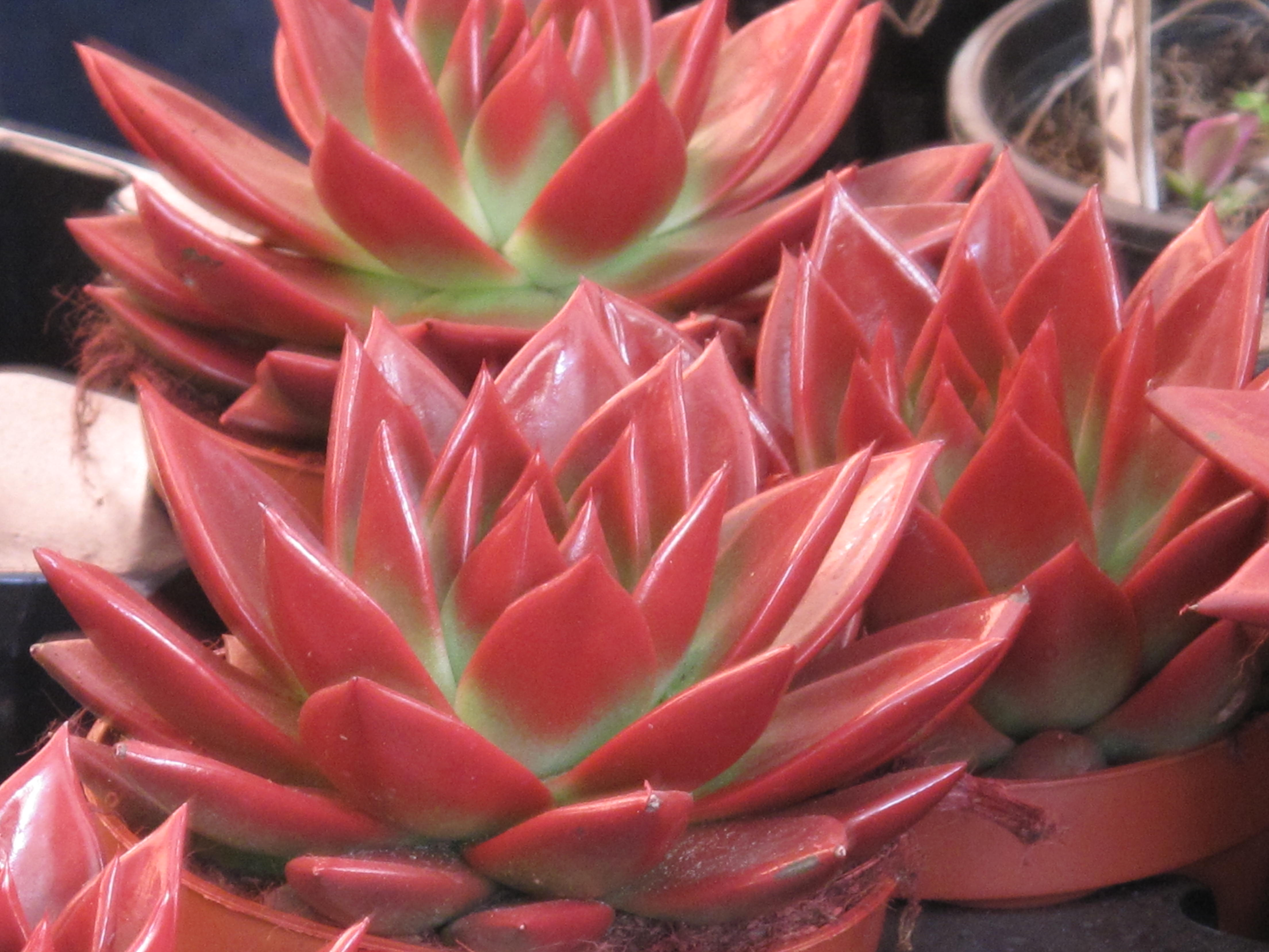 Echeveria agavoides on the flower market of Nice, France